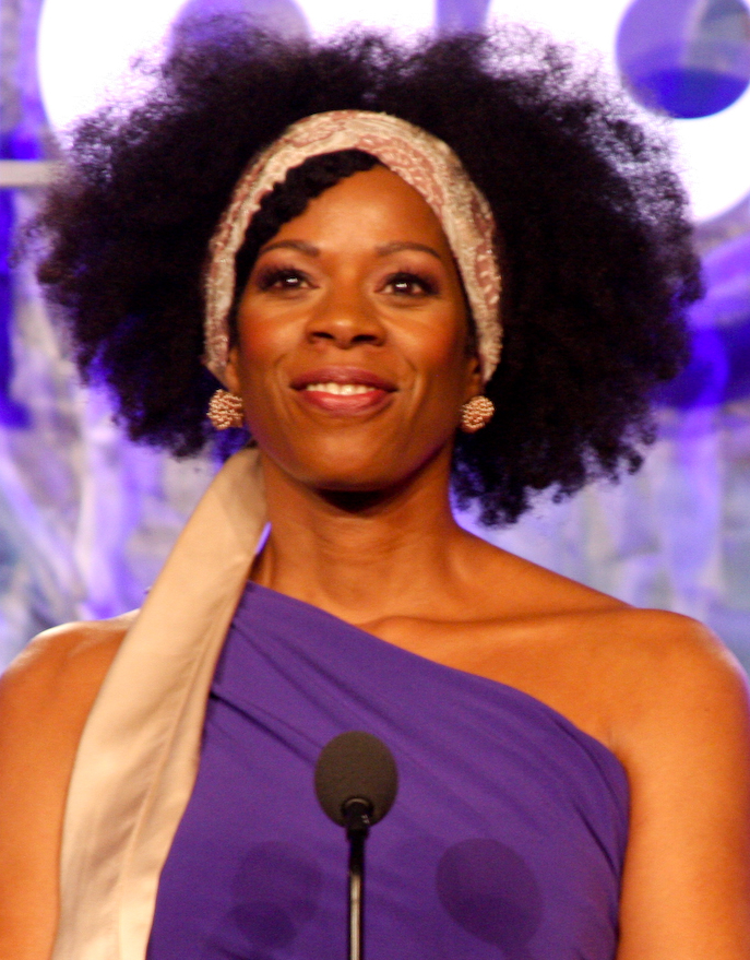 Kim Wayans at the GLAAD Awards 2012